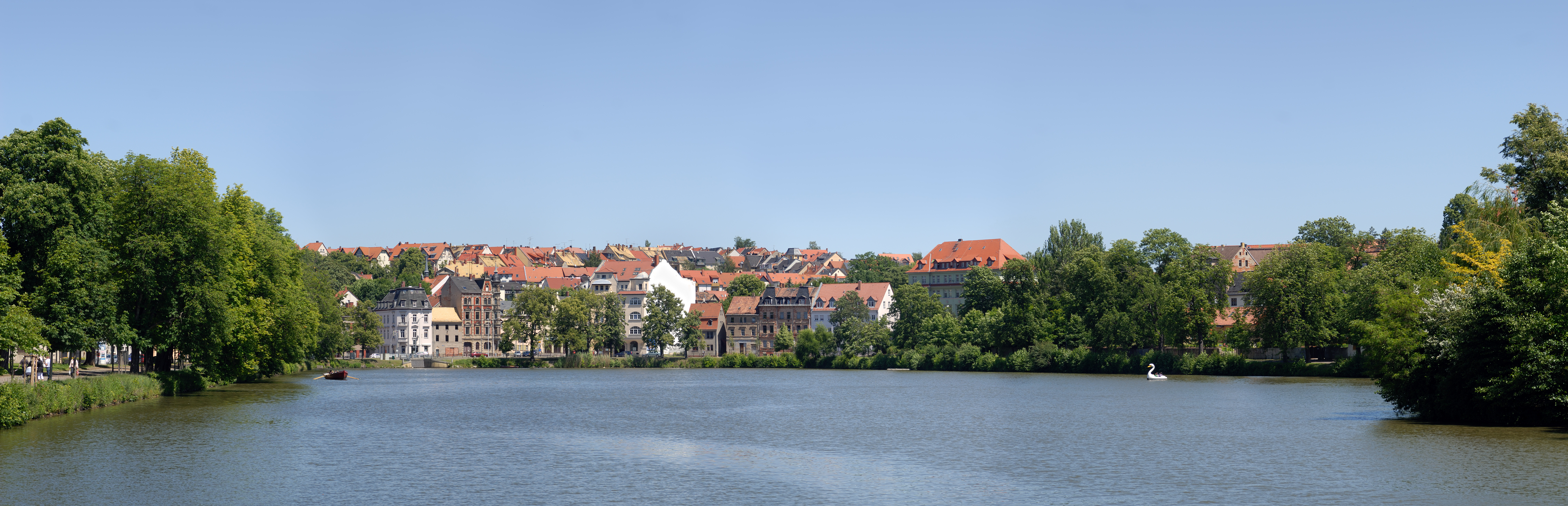 This image shows the big town pond in Altenburg, Thuringia, Germany. It is a six segment panoramic image.